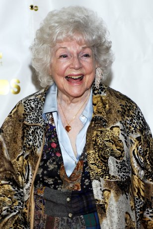 Voice actress Lucille Bliss at the 2006 Annie Awards red carpet at the Alex Theatre in Glendale, California.